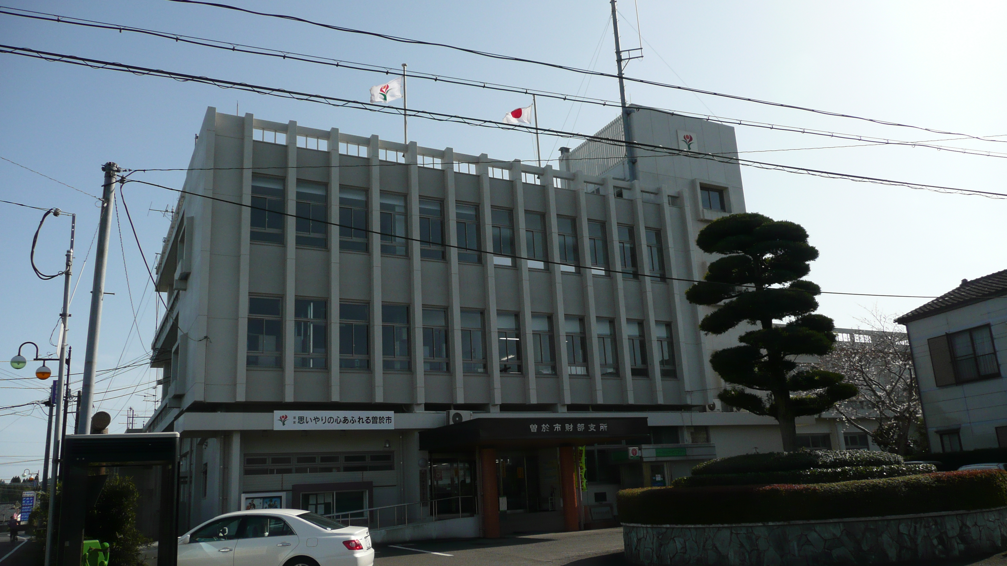 Soo City Office Takarabe Branch (Former Takarabe Town Office - Kagoshima, Japan)